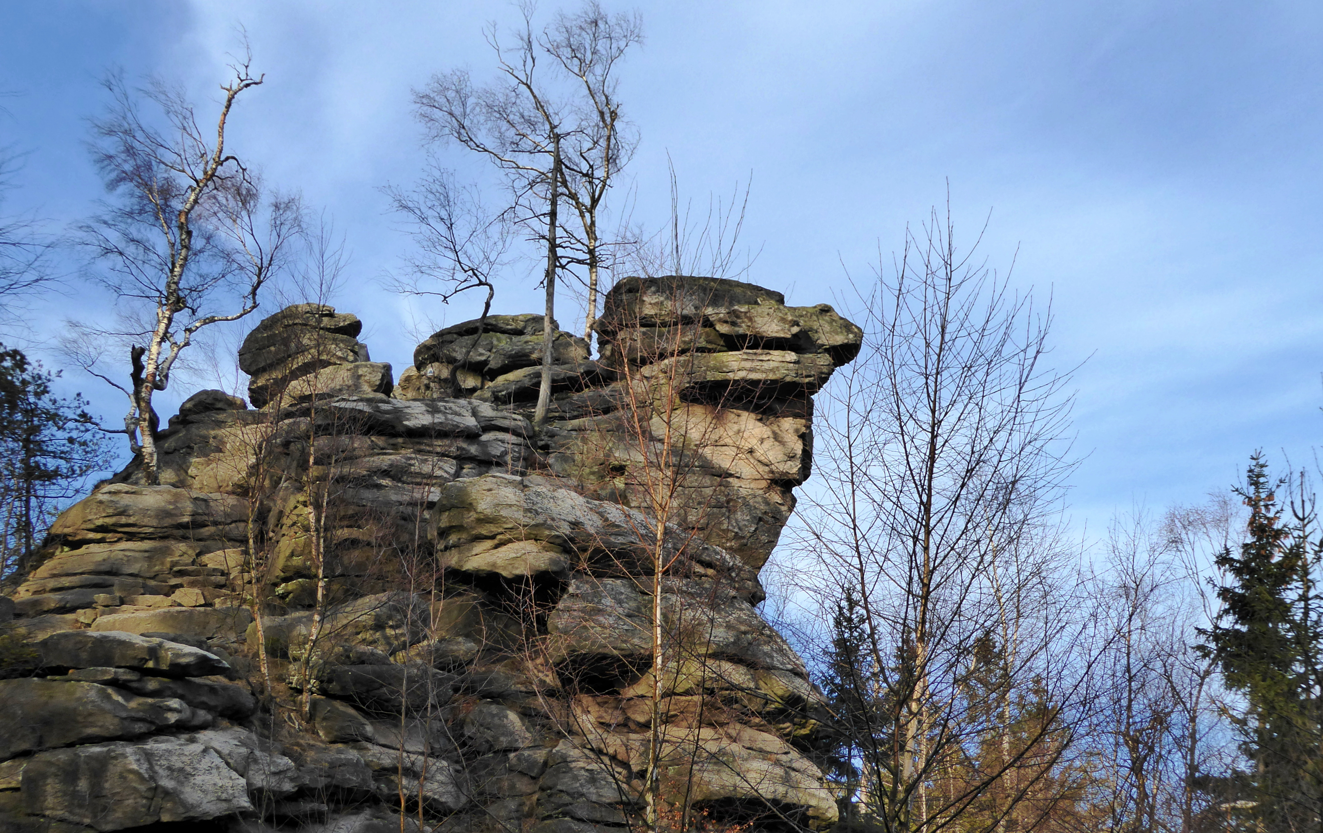 Žďár Hills (Czech Republic), geographical name of the natural area of the type highland (geomorphological unit) a with a larger area also the geographical name of the protected territory (protected landscape area). View their highest peak Nine Rocks (836.3 m above sea level). The part of the rock wall of the natural monument Nine Rocks. Geomorphological district "Devítiskalská" Highlands. Photo location: Czechia, Vysočina Region, villages Křižánky, "Devítiskalská" Highlands, Nine Rocks, rock area below the summit (55°).